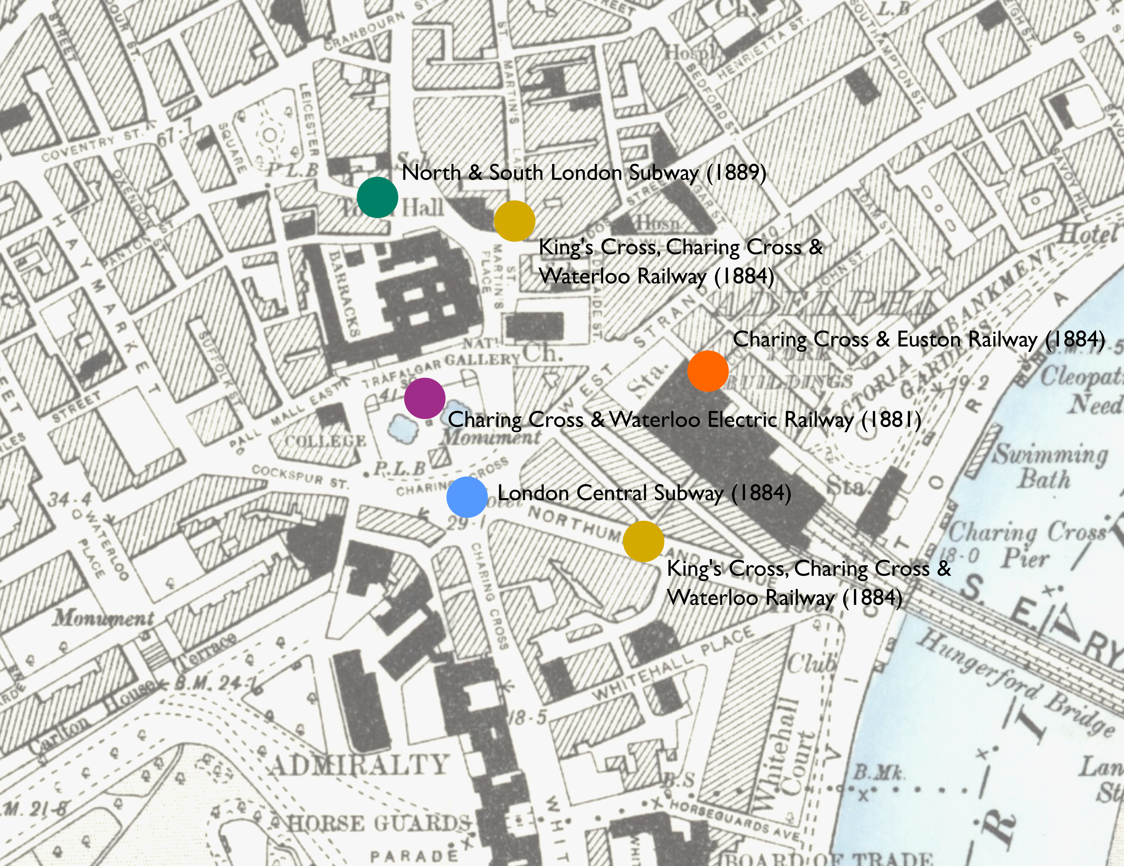 Map showing locations of stations proposed in the 1880s in parliamentary bills for underground stations in the Charing Cross area.